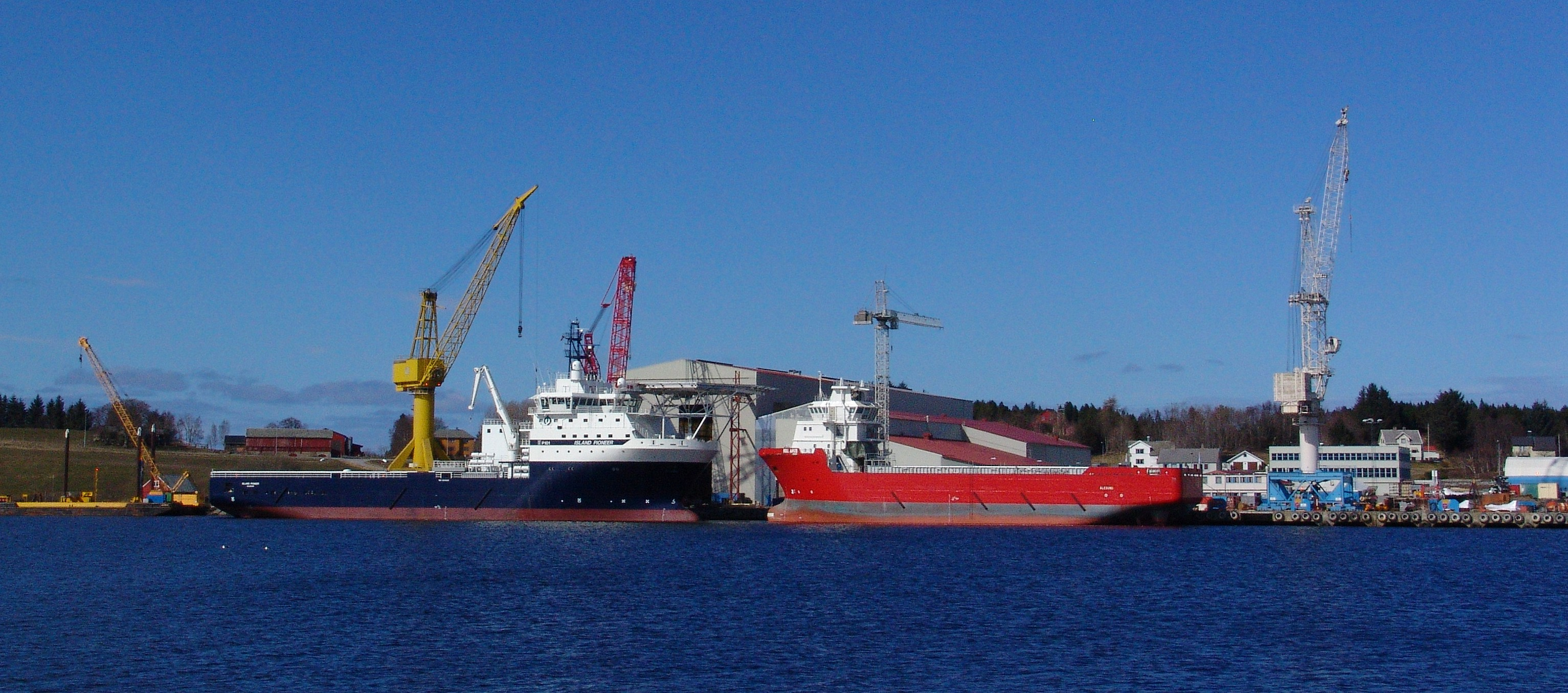 Aker Aukra Siem Danis (IMO: 9355989) Island Pioneer (IMO: 9344849) Name:Siem Danis IMO : 9355989 MMSI : 258665000 Call sign : LAGM Design : VS 470 MK II Class : DnV X 1A1 Supply vessel SF E0 DYNPOS-AUTR LFL* Built : 2006, Aker Aukra, Norway DNV ID : 26397 Speed Max/Eco: 14kts/11,5kts Draft (S): 6,42m Deadweight @ S: 3570T Gross Tonnage (1969 conv.): 2465T Net Tonnage: 859T Flag: NOR LOA/Beam: 73,4m /16,6m Name: Island Pioneer IMO: 9344849 MMSI Number: 258531000 Callsign: LDJN Size: 95m x 21m x 6.8m